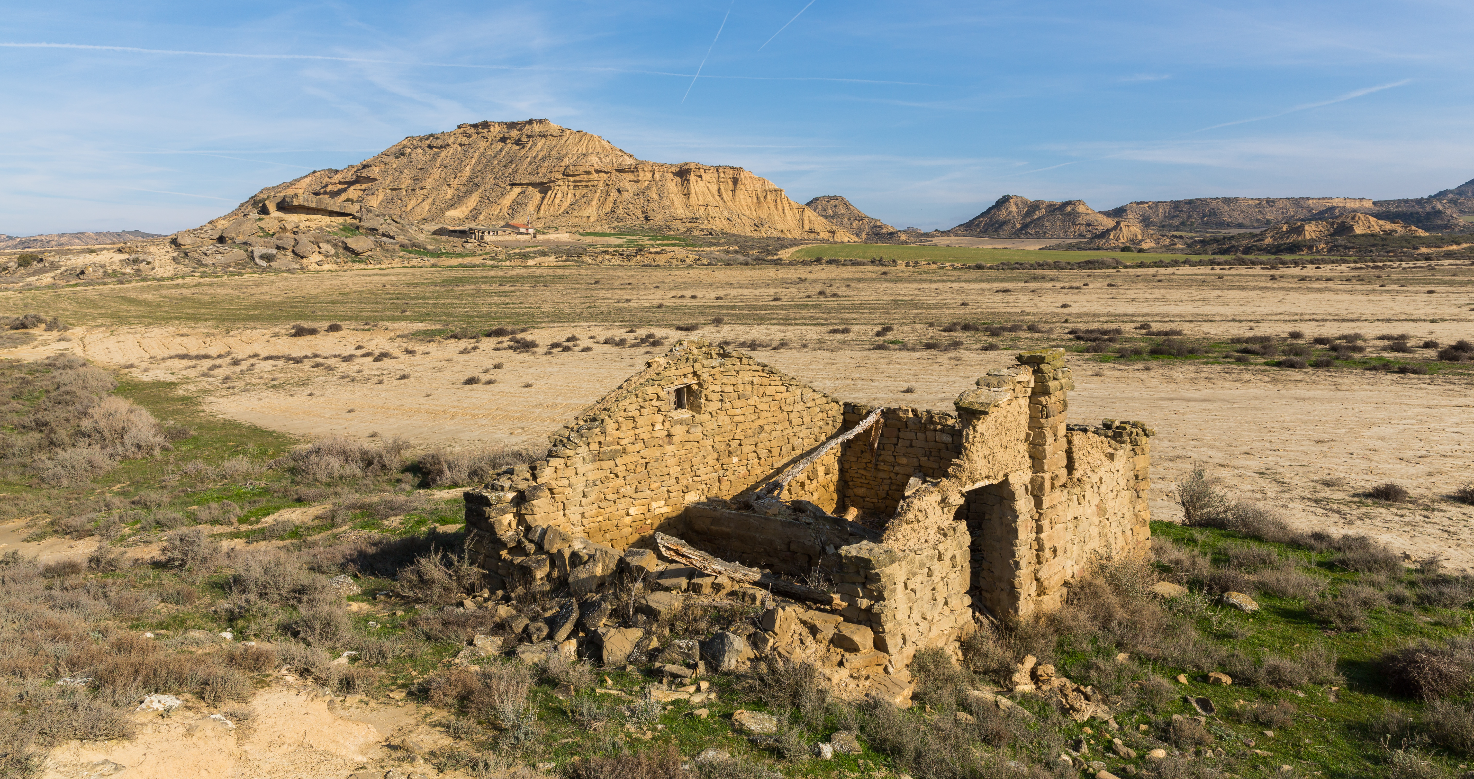 Bardenas Reales, Navarre, Spain